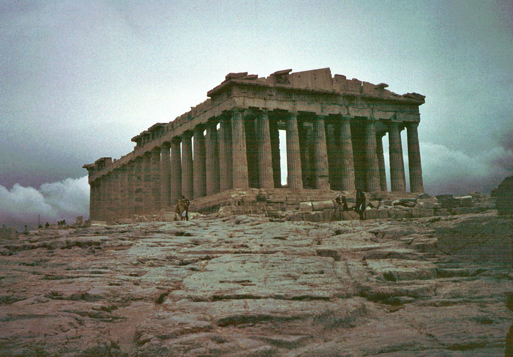 Parthenon, Athens Greece. Photo taken in 1978.